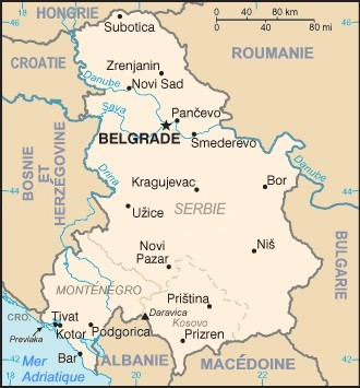 carte Serbie-et-Monténégro / map of The Federal Republic of Yugoslavia (Serbia and Montenegro) This is a map of The Federal Republic of Yugoslavia (Serbia and Montenegro) [FRY (S&M)] from as the 2000 CIA World Factbook as mirrored by the PCL.